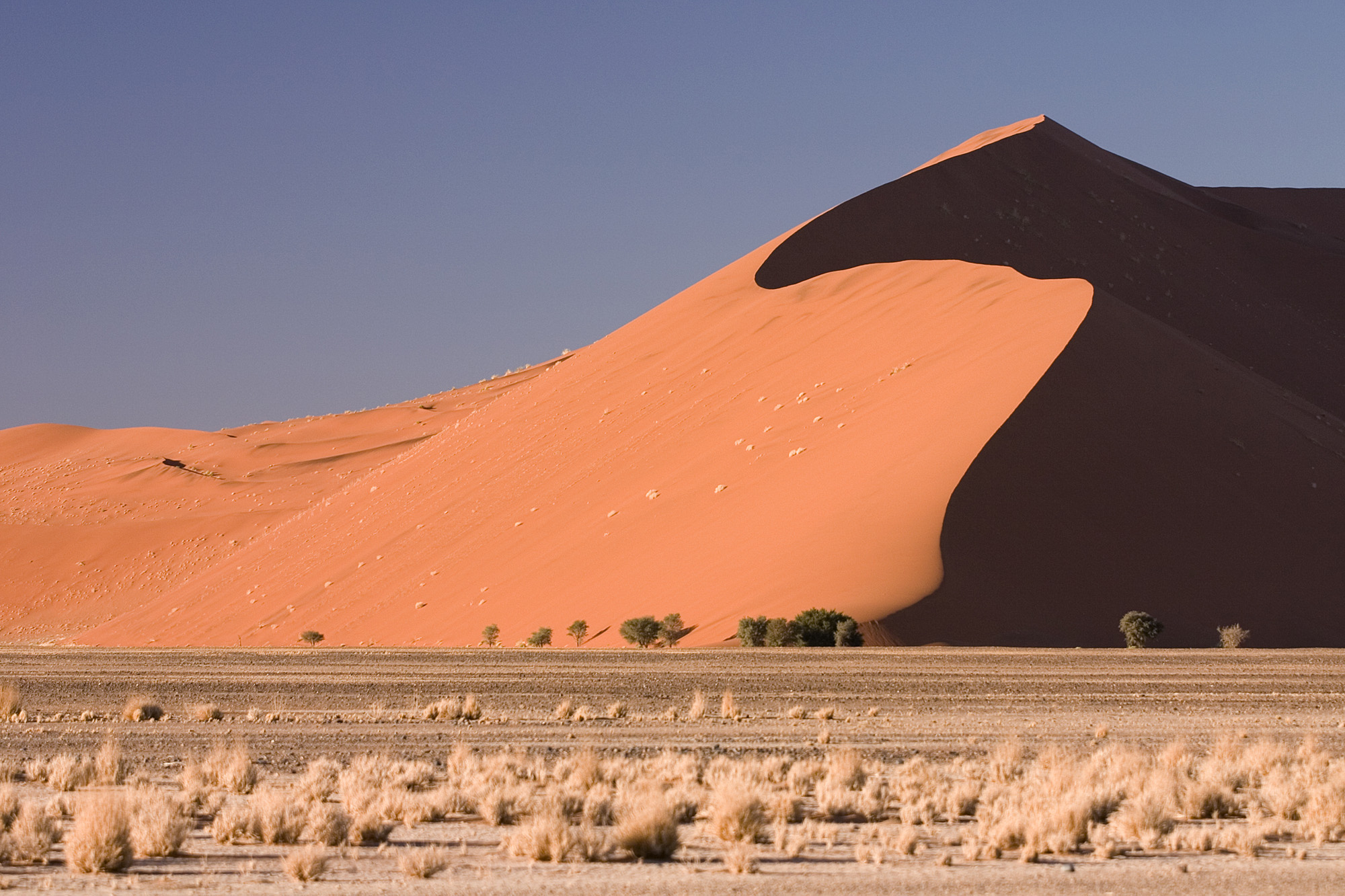 Dune 45 in Sossusvlei region in the Namib-Naukluft National Park, Namib Desert, Namibia.